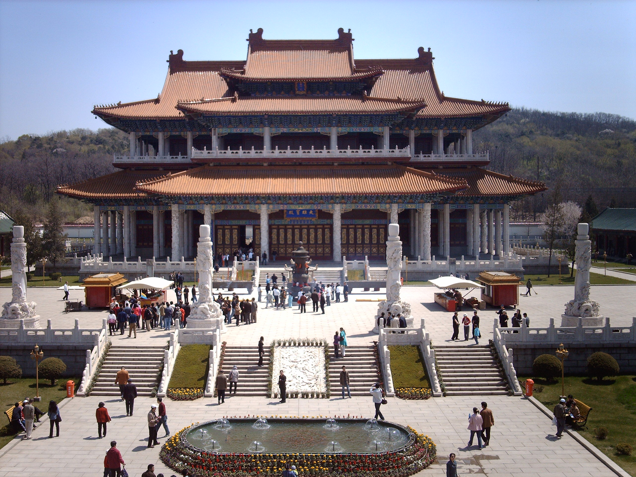 Jade Buddha Palace in Anshan, Liaoning, China houses the worlds largest Buddha statue made entirely of jade.